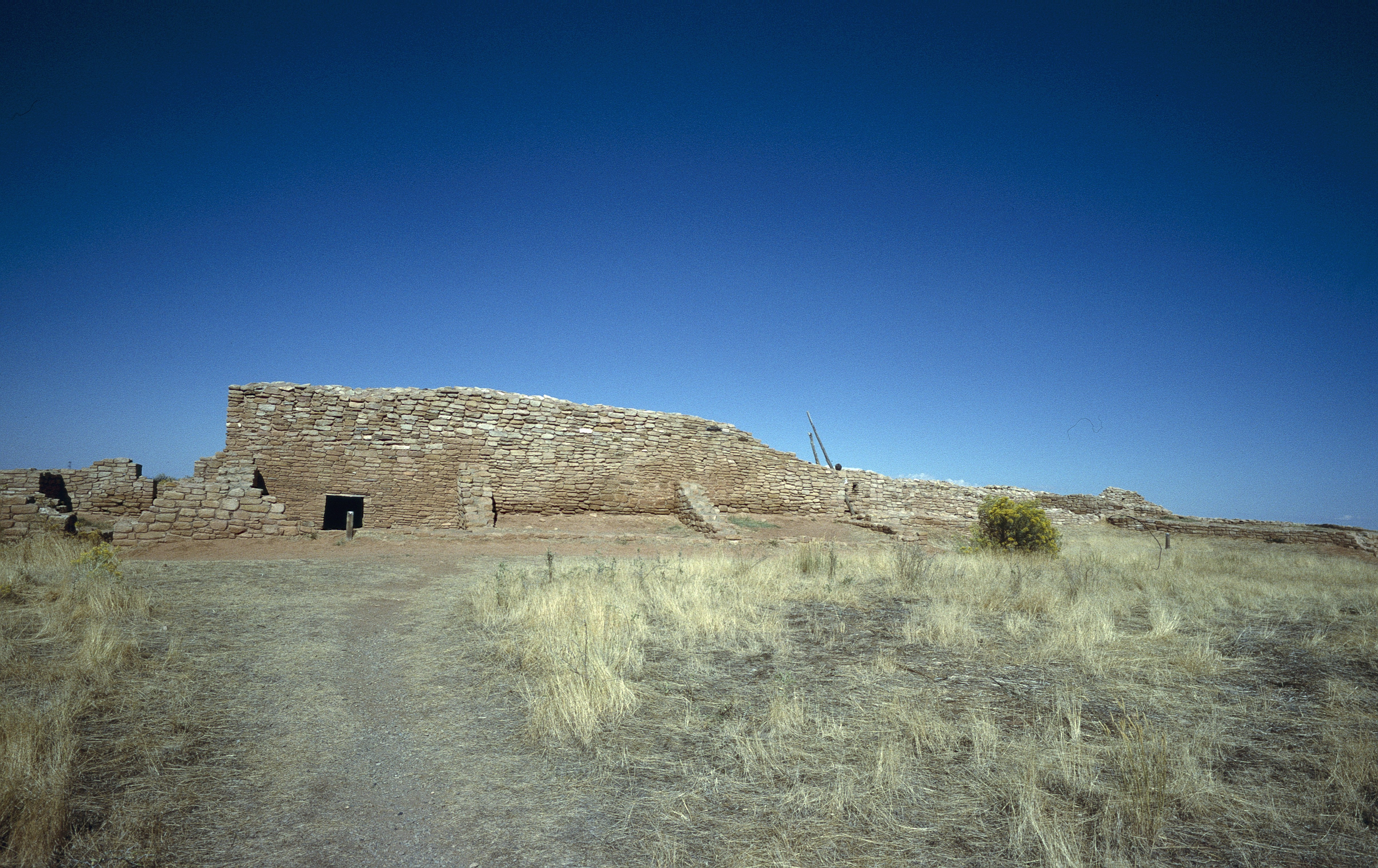 Lowry pueblo, Colorado, USA: central building